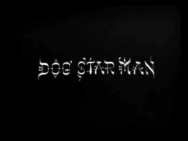 Opening title card of American filmmaker Stan Brakhage's five-part experimental film, Dog Star Man (1961–1964).